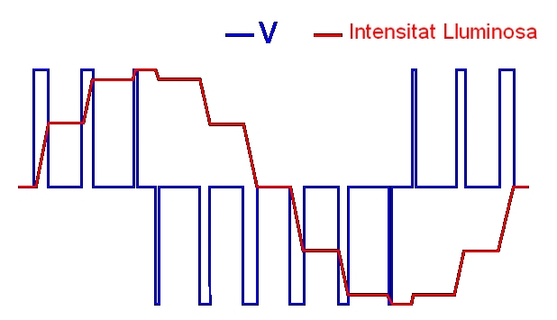 A simplified example of pulse-width modulated (PWM) voltage supply to a magnetic circuit. The voltage (blue waveform) in a magnetic circuit is proportional to the rate of change of the flux density (red waveform). Therefore, by using PWM supply the resultant flux density can be controlled with relative ease. This method is commonly used for supplying electric motors, in which the torque is proportional to the flux density. As can be seen, with a series of appropriately modulated voltage impulses the resultant flux density can be modulated to be close to desired sinusoidal waveform. In the example shown (for 50 Hz), for clarity the switching frequency is 600 Hz, in real devices the switching frequency is much higher - even up to 10 kHz or higher. Of course, for higher fundamental frequency the switching frequencies would be even higher.